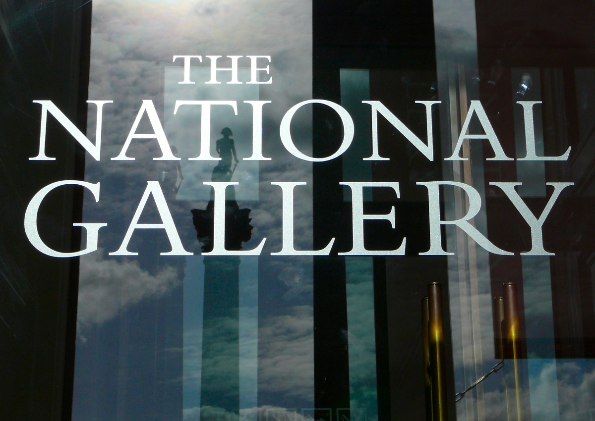 The front doors of the National Gallery face Nelson's Column in Trafalgar Square The image was taken with a Panasonic Lumix DMC-TZ1 Date: 5 March 2007